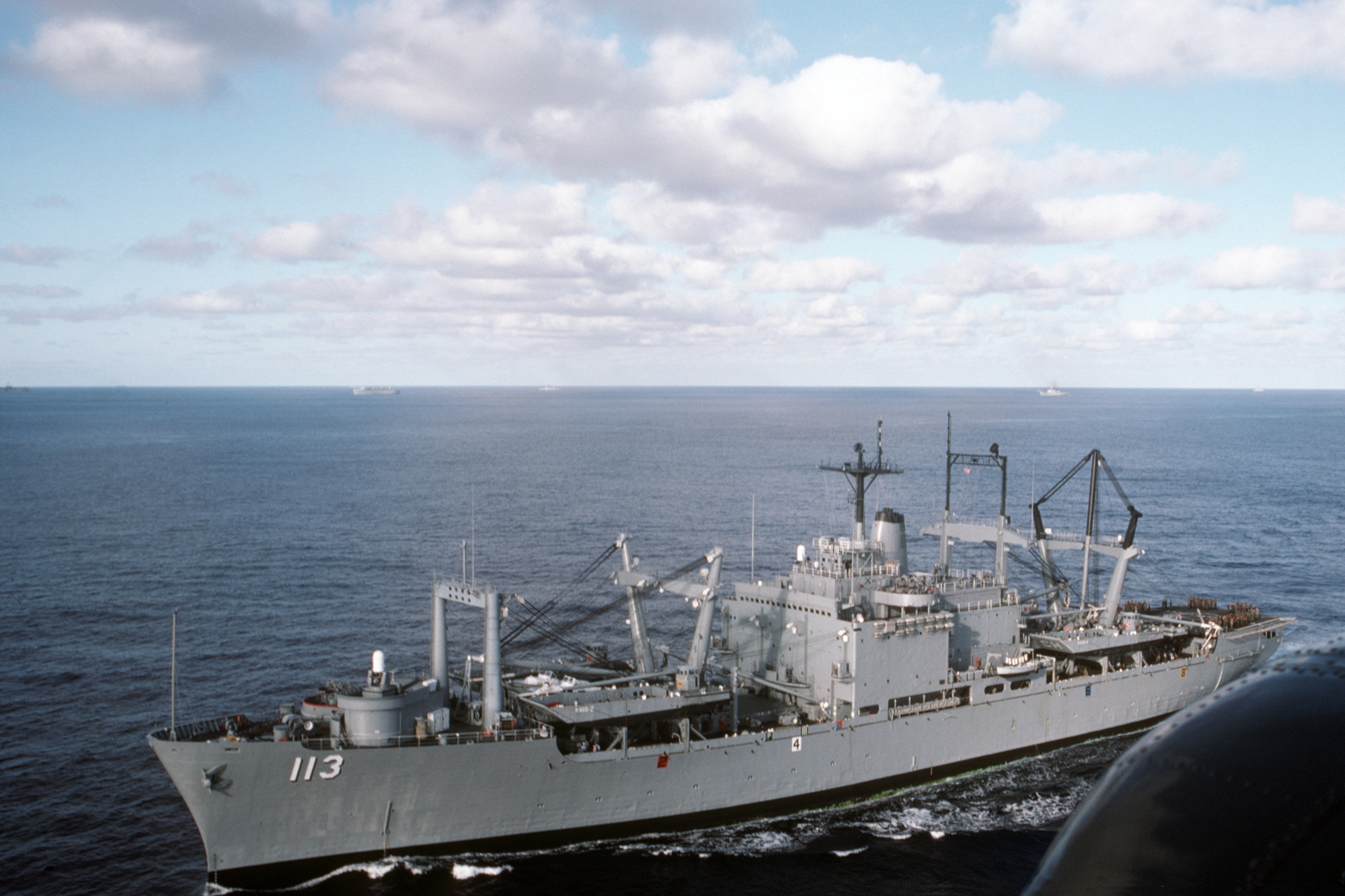 The U.S. Navy amphibious cargo ship USS Charleston (LKA-113) underway with the aircraft carrier USS John F. Kennedy (CV-67) battle group in 1988. The ship, which was part of Task Group 24.4, was in an 18-ship formation that was transiting the North Atlantic Ocean to the Mediterranean Sea.